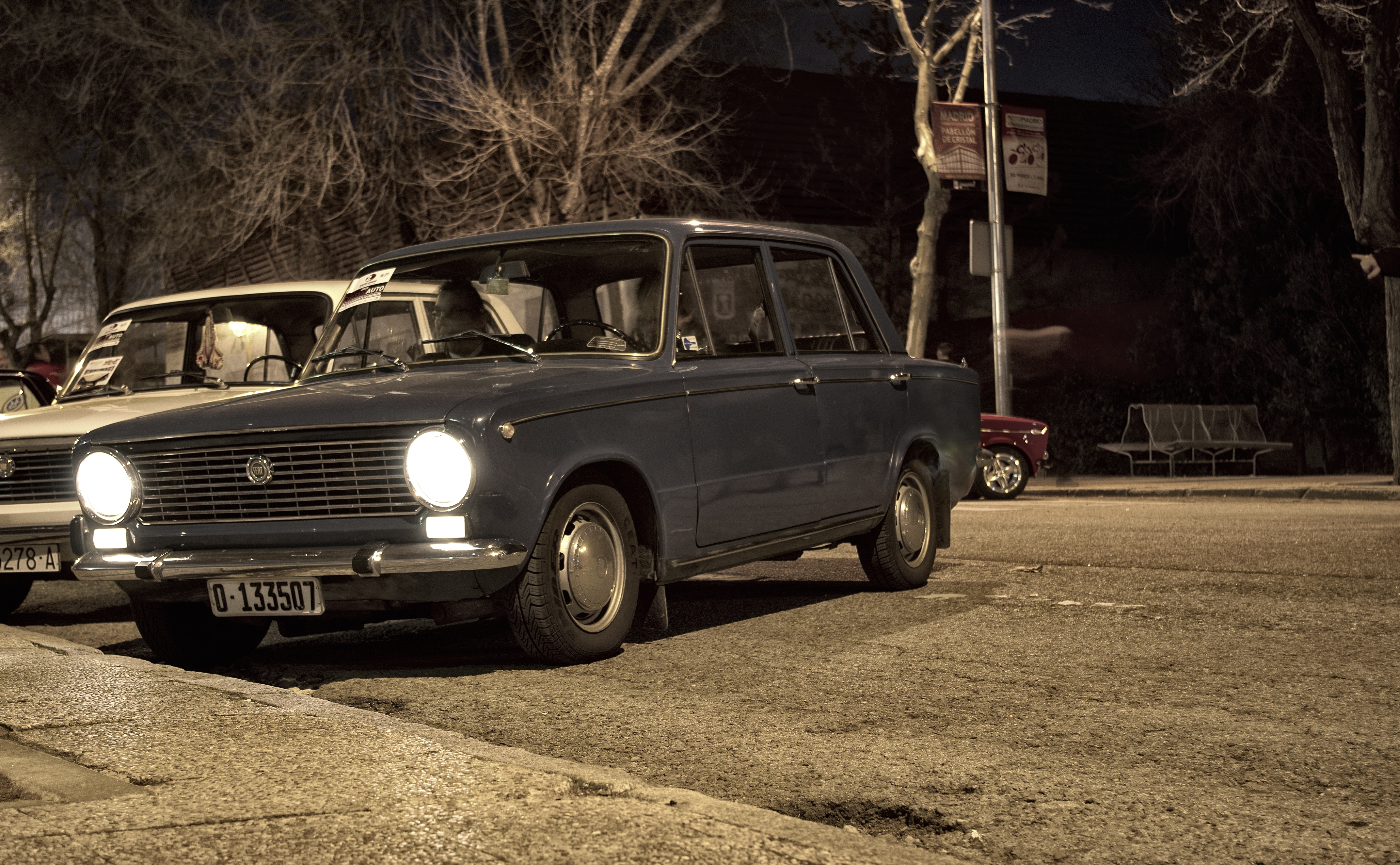 1970 Seat 124 L